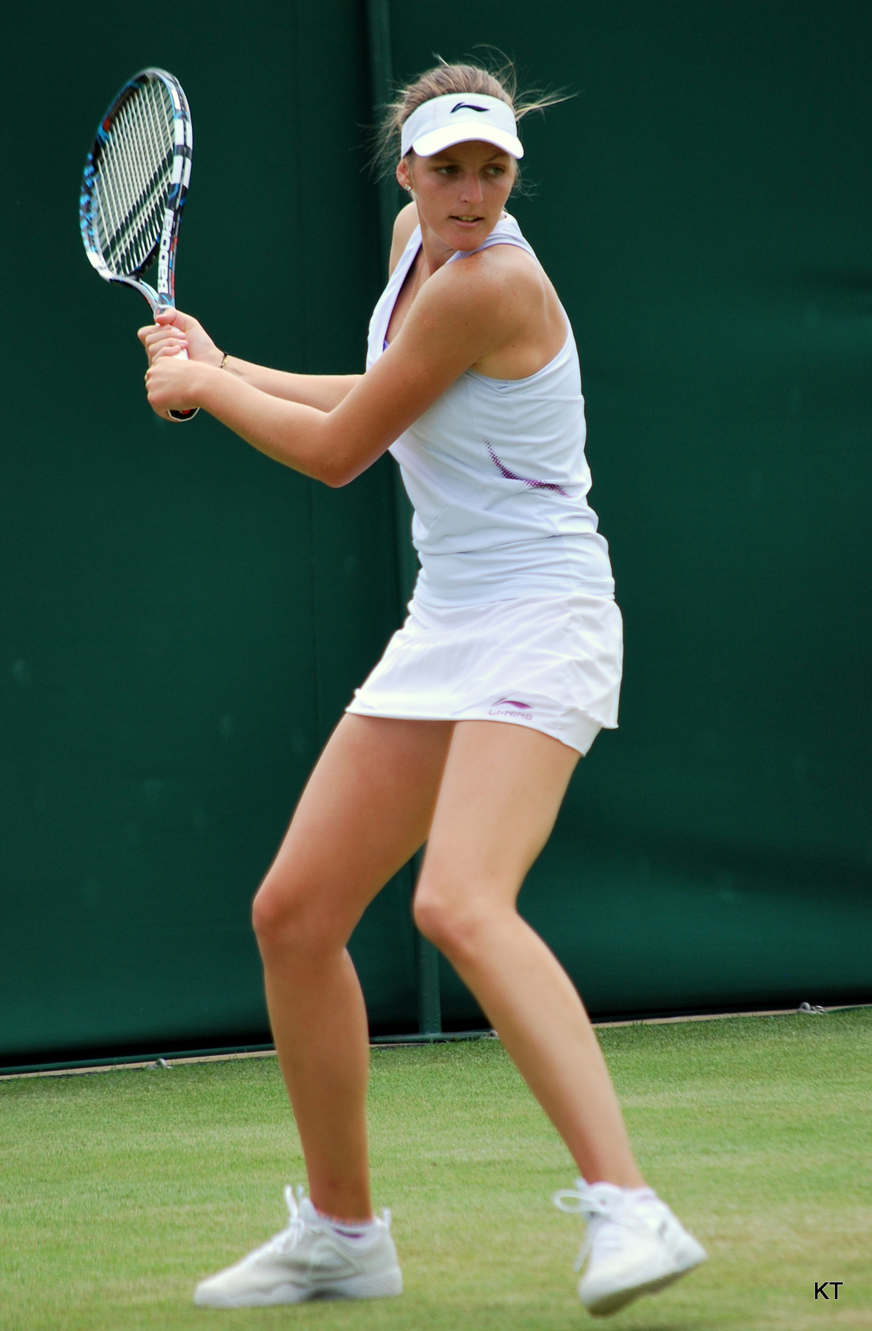 Kristyna Pliskova during her first round match with Polona Hercog on Day 2 of Wimbledon 2012.